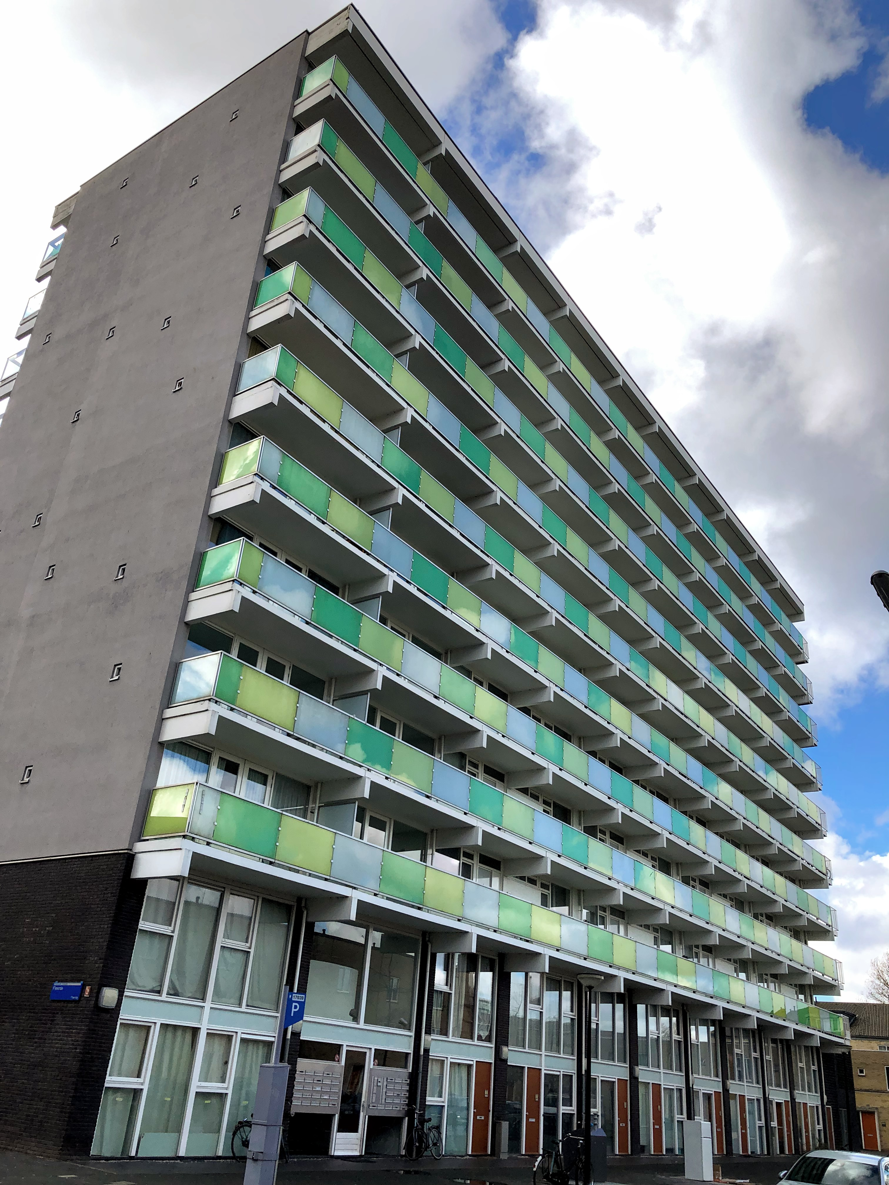 'Fleerde' a building in 'Bijlmermeer' after modifications to the original building 2019